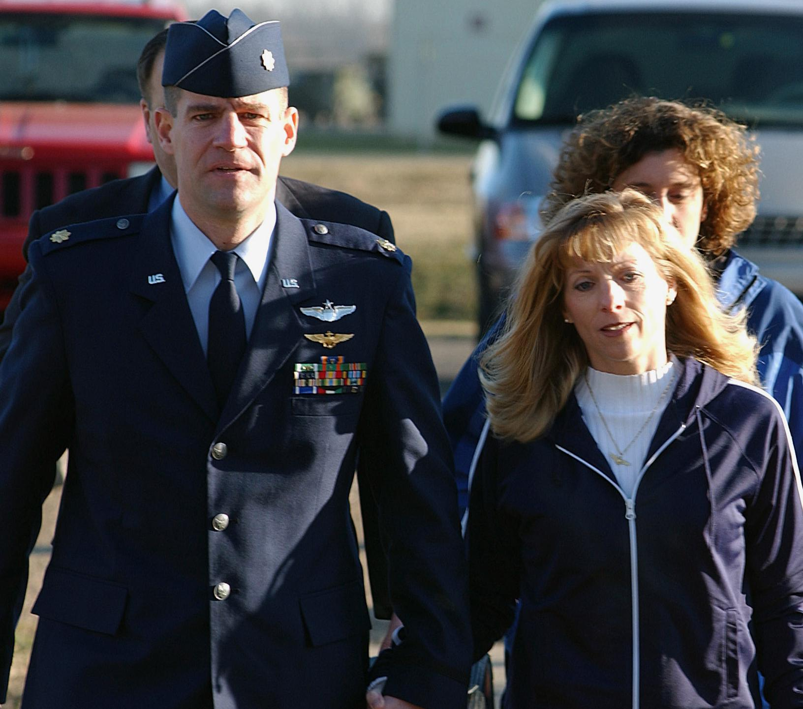 BARKSDALE AIR FORCE BASE, La. -- Major Harry Schmidt and wife Lisa enter the Tarnak Farms Article 32 hearing room here. Major William Umbach and Schmidt were involved in the April 17, 2002 bombing incident that killed 4 Canadian soldiers and injured 8 near Kandahar, Afghanistan.